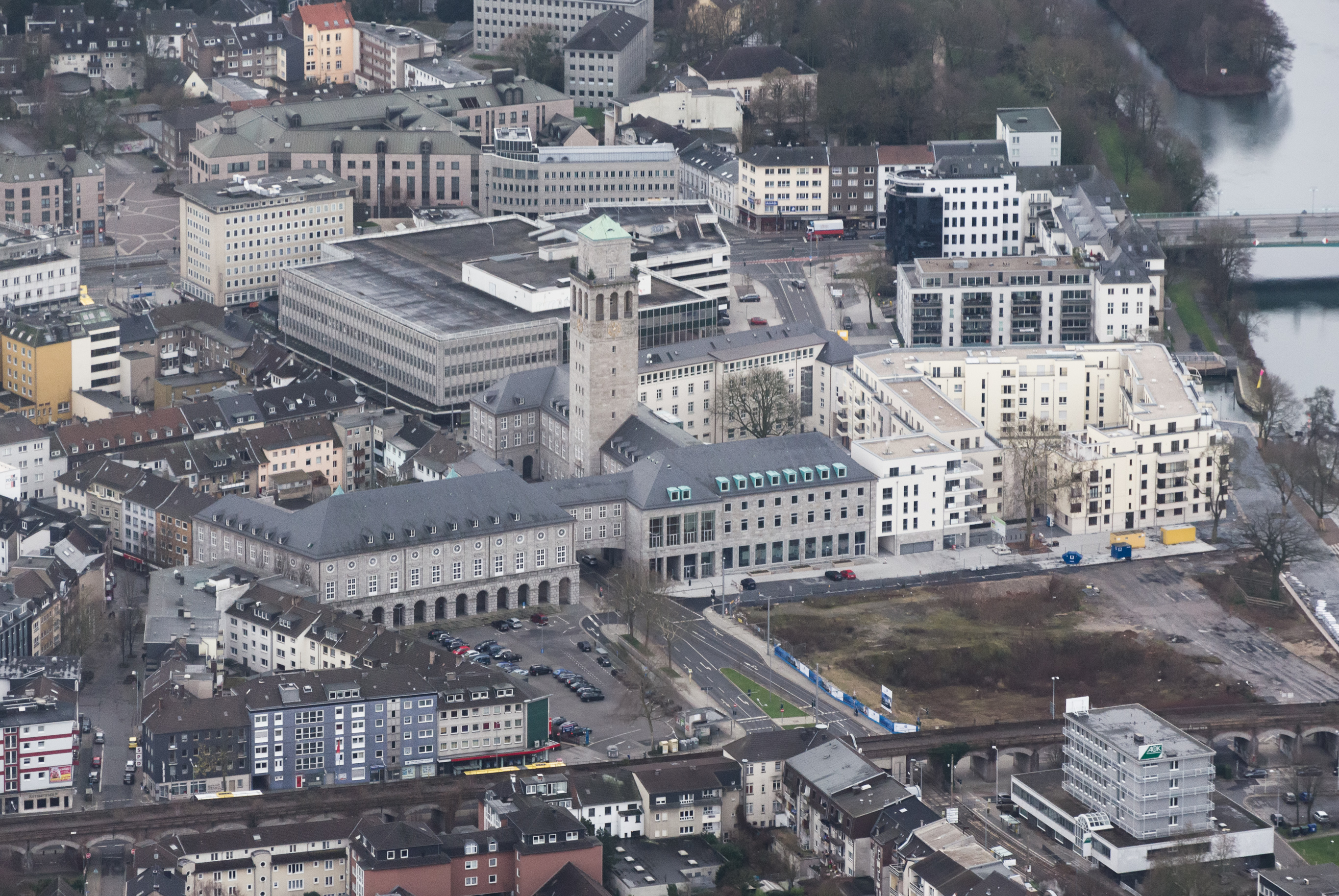 Aerial photograph of center of Mülheim with town hall and market square at the town hall